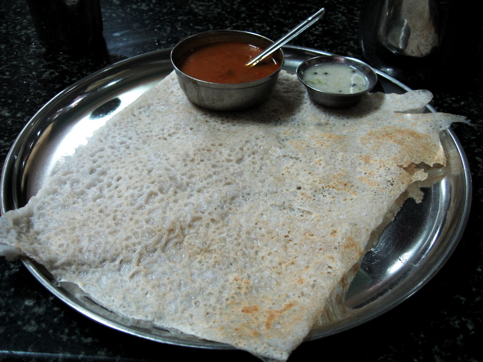 Neer Dose, a specialty dOsE of Mangalore/Malnad.